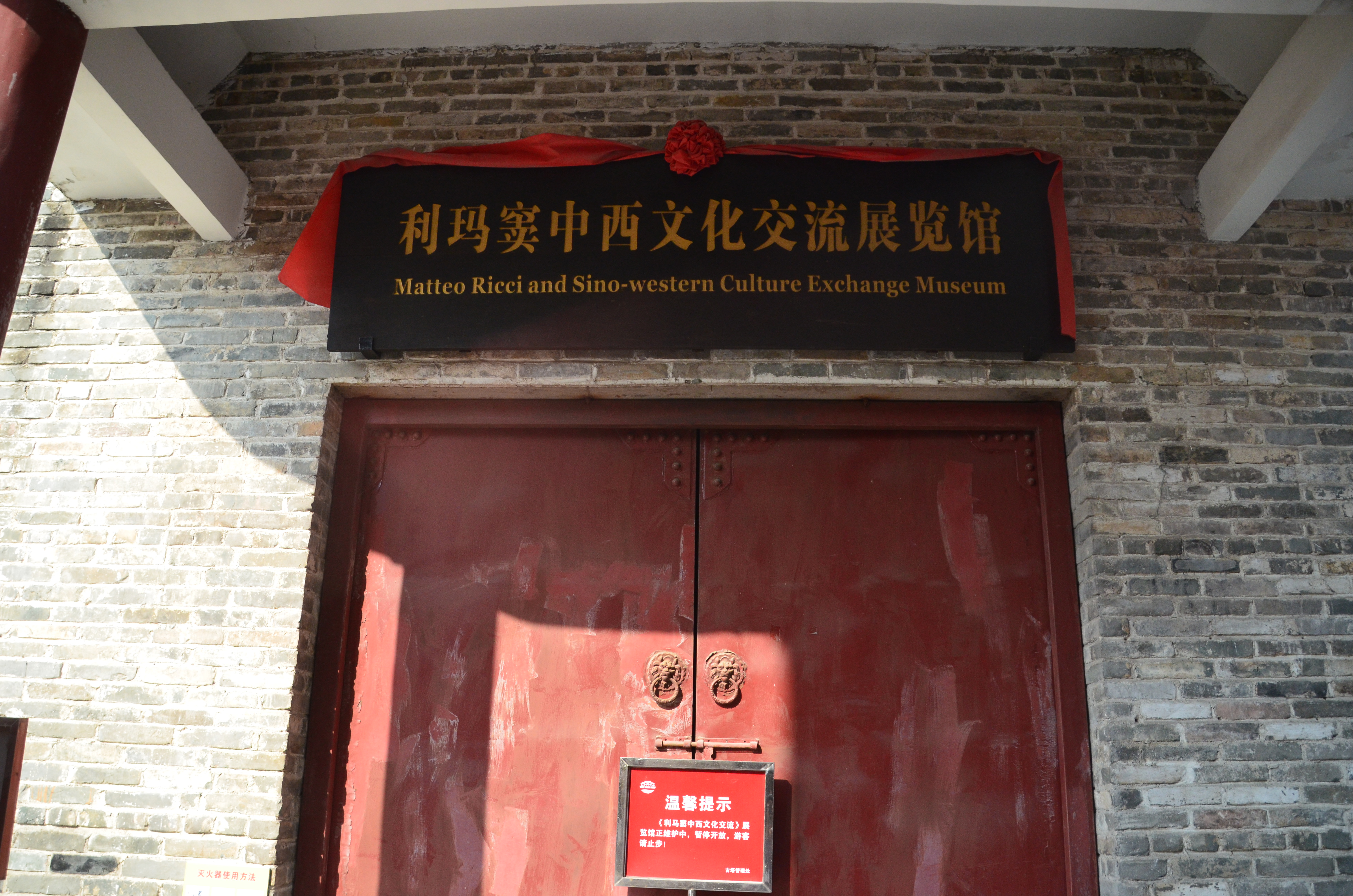 Matteo Ricci Museum in Zhaoqing (肇庆, Chongxi tower)